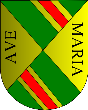 Arms of the Portuguese Dukes of Loulé Made by JSobral